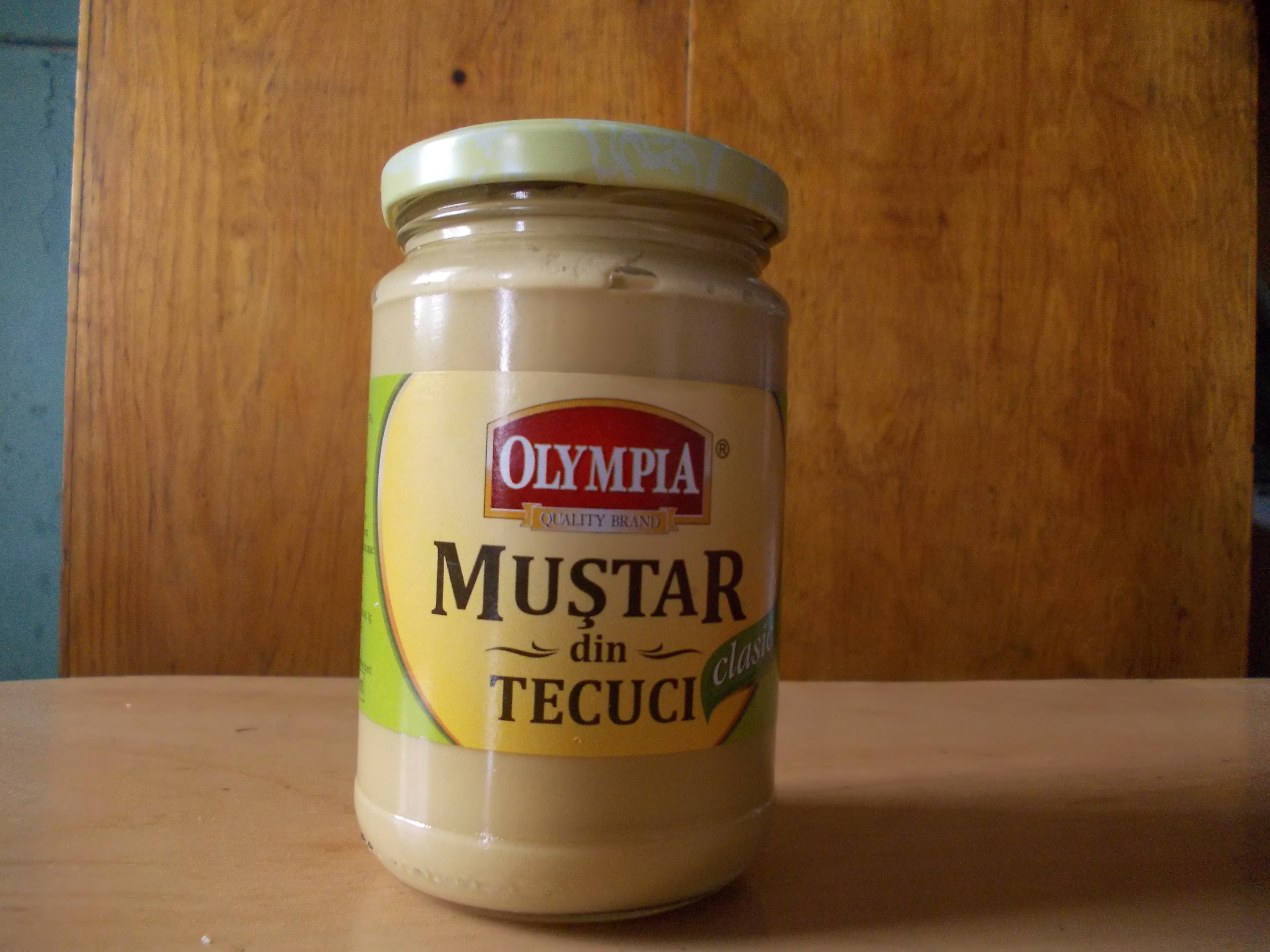 Mustard Olympia glass jar, produced in Tecuci, Romania